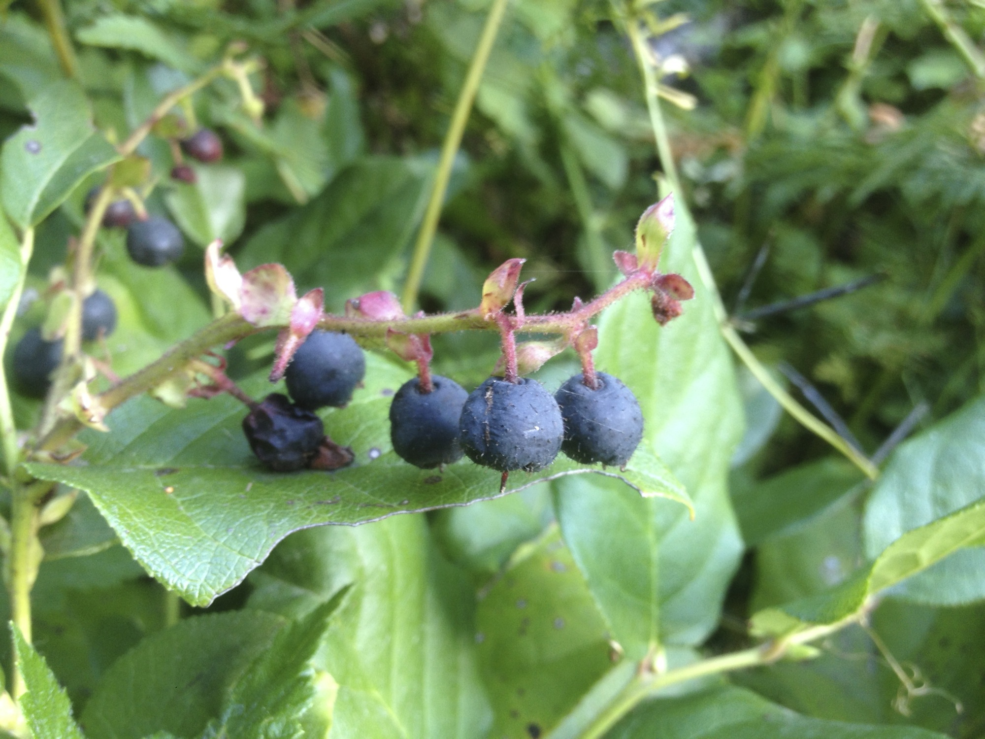 Ripe berries of the salal plant, Gaultheria shallon